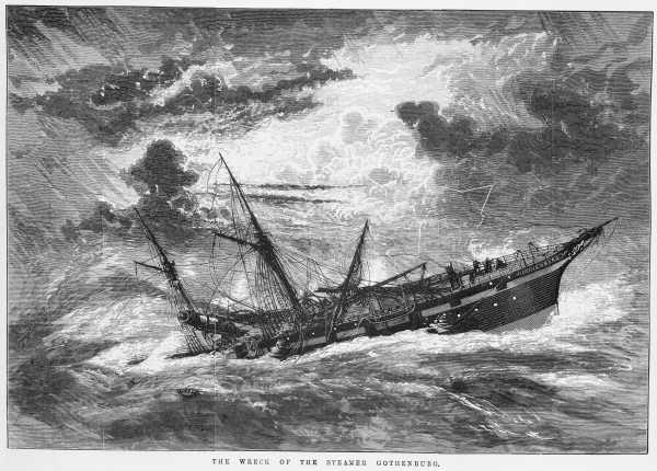 The wreck of the steamer Gothenburg